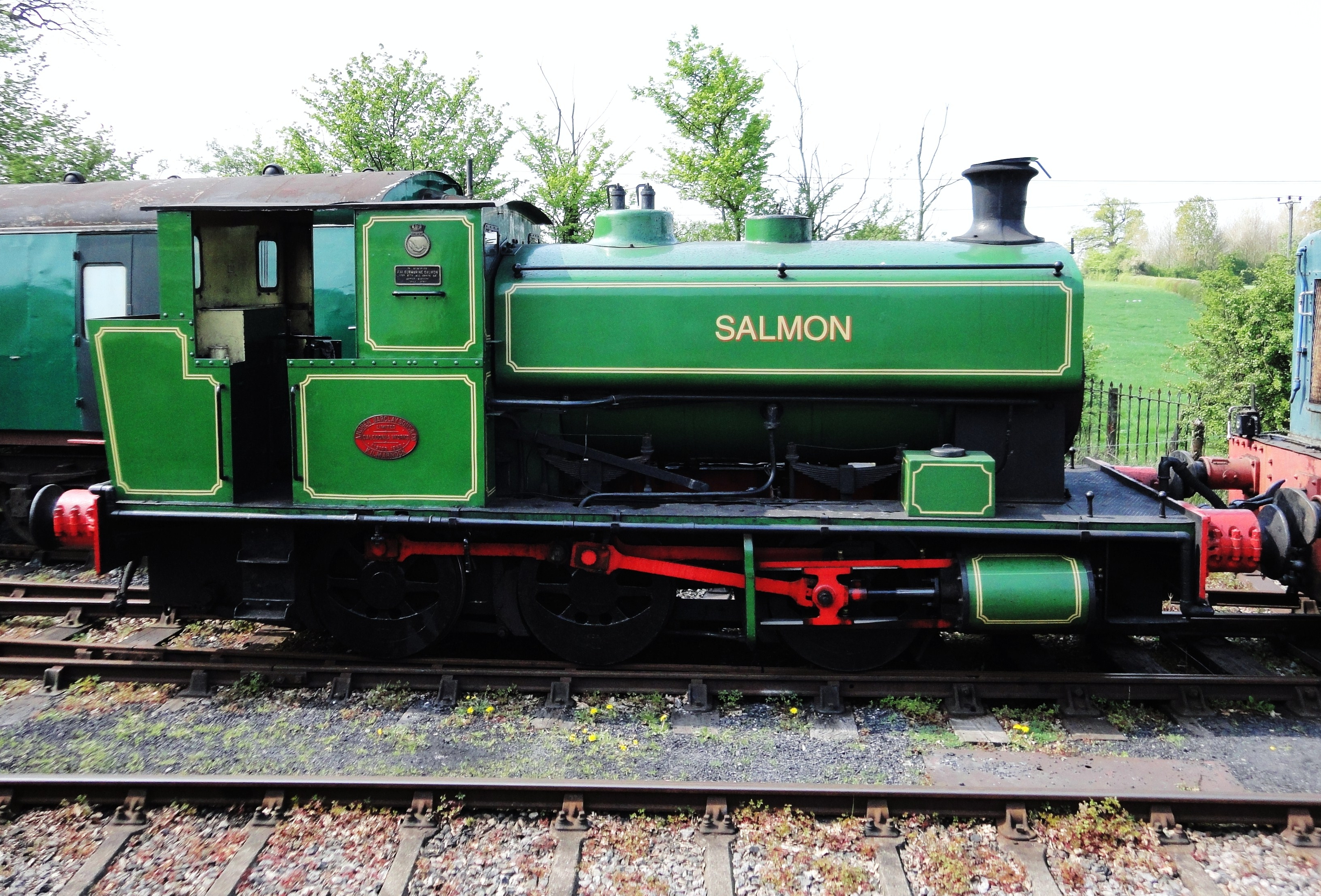 Swindon & Cricklade Railway ... SALMON the tank engine.